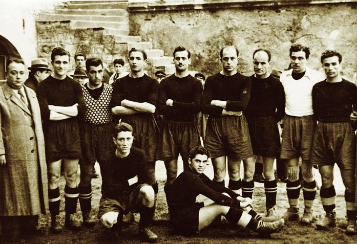 Champion Beşiktaş J.K. squad after the 1940–41 Istanbul Football League season. From left to right: Back row - Manager Refik Osman Top, Şeref Görkey, Hakkı Yeten, Şükrü Gülesin, Sabri Gençsoy, Feyzi Uman, Hüsnü Savman, Mehmet Ali Tanman, Yavuz Üreten. Front row - , Halil Köksalan, Rıfat AtakanıTürkçe: 1940–41 İstanbul Futbol Ligi şampiyonu Beşiktaş JK kadrosu. Soldan sağa: Ayaktakiler - Refik Osman Top, Şeref Görkey, Hakkı Yeten, Şükrü Gülesin, Sabri Gençsoy, Feyzi Uman, Hüsnü Savman, Mehmet Ali Tanman, Yavuz Üreten. Oturanlar - Halil Köksalan, Rıfat Atakanı